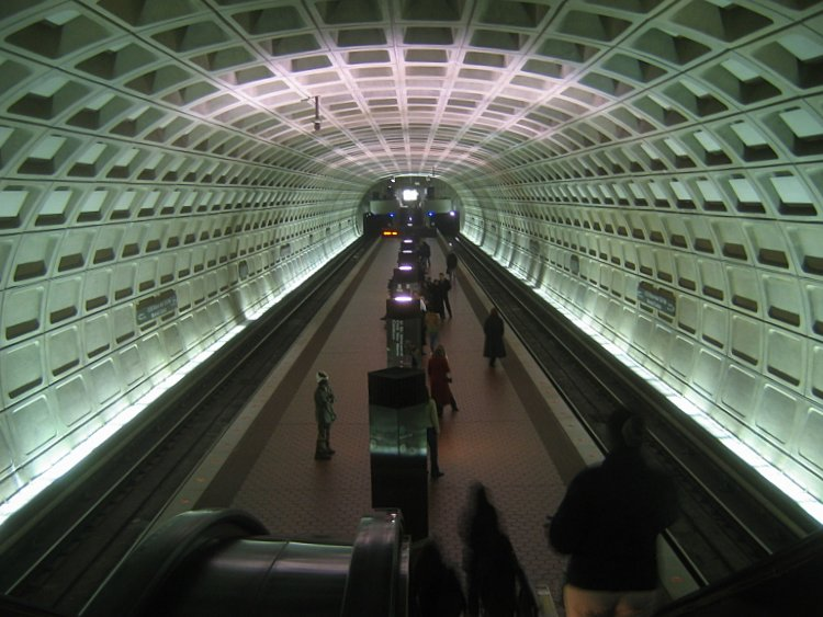 U St/African-Amer Civil War Memorial/Cardozo (Washington Metro) station. January 2005. © 2005 Joseph Barillari